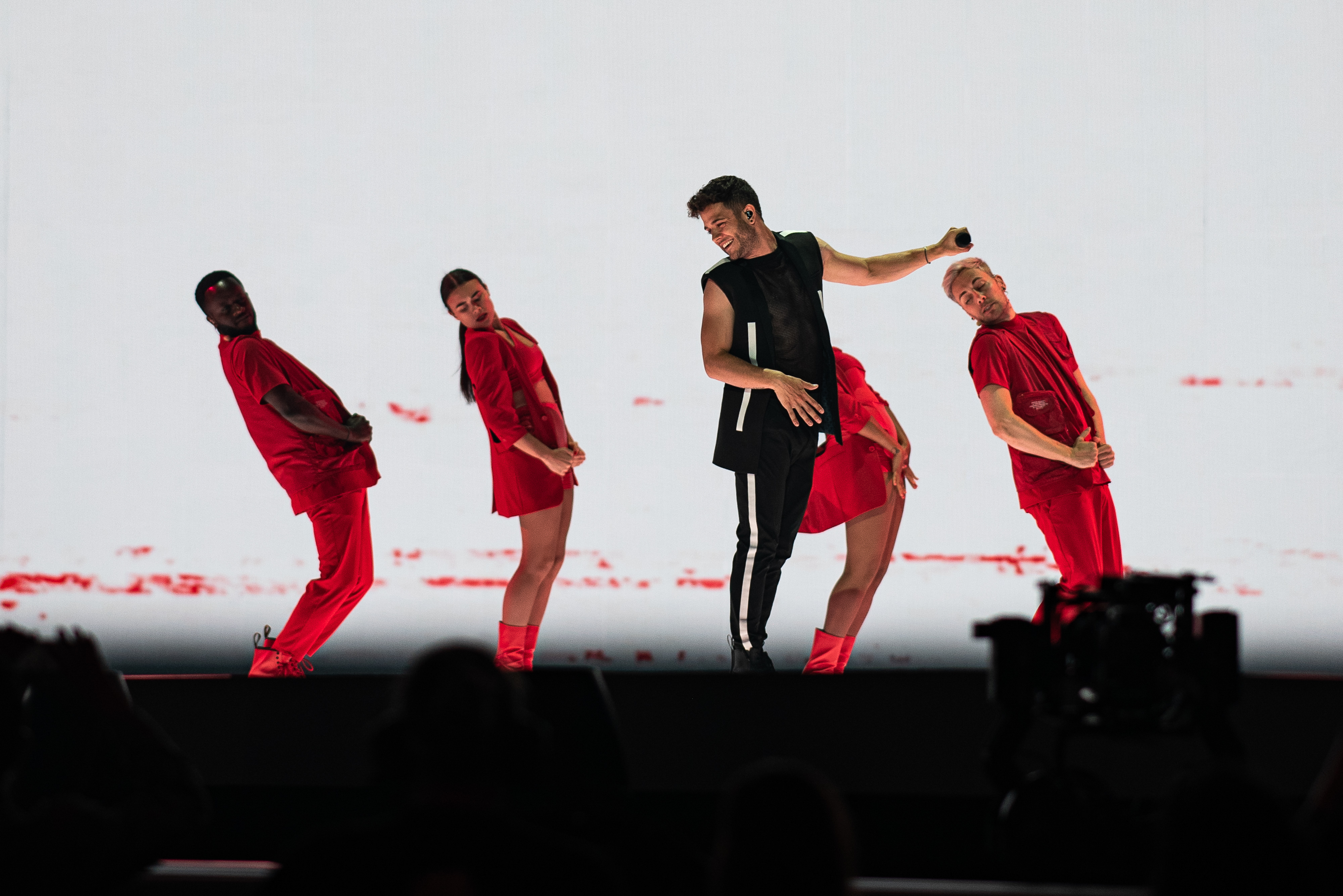 Luca Hänni representing Switzerland with the song "She Got Me" during a rehearsal before the grand final of the Eurovision Song Contest 2019 in Tel-Aviv.